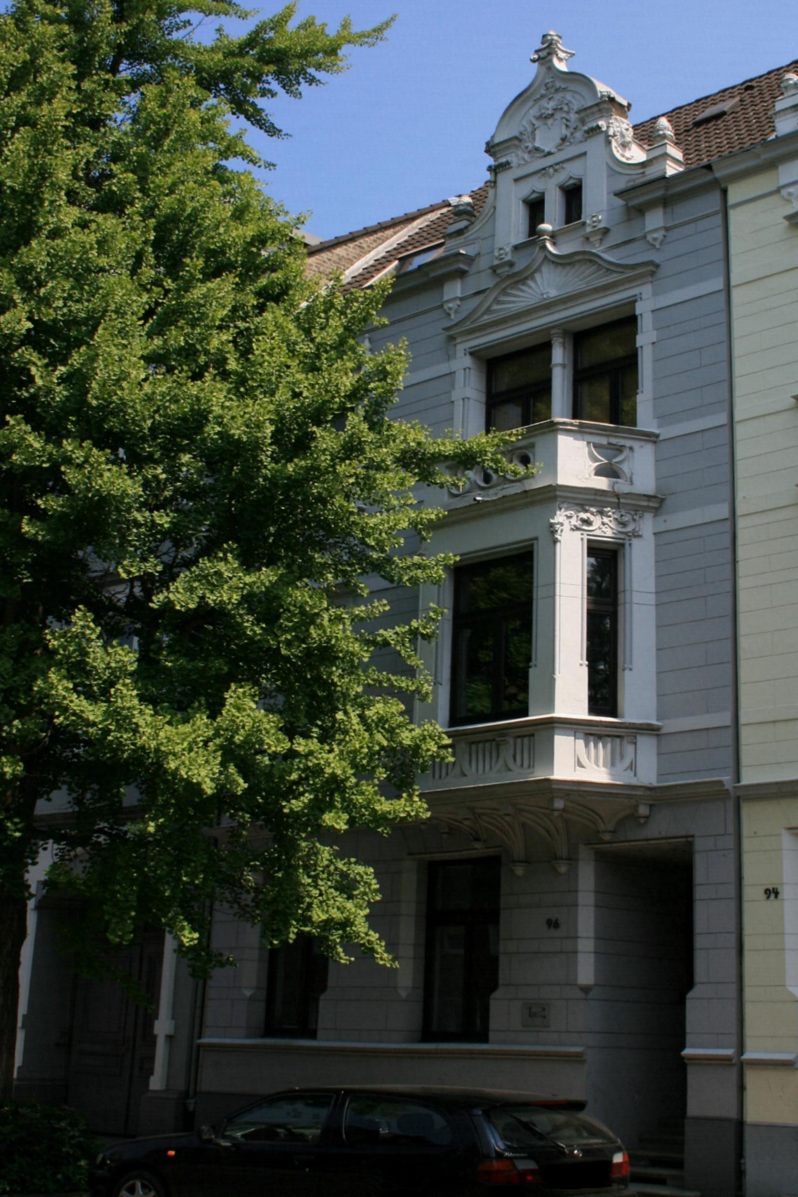 Cultural heritage monument No. B 087 in Mönchengladbach